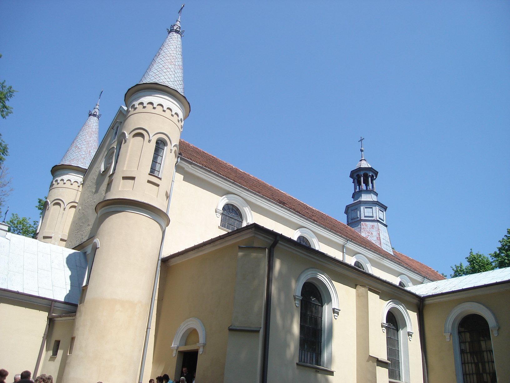 Daleszyce, Parish Church of St Michael the Archangel.